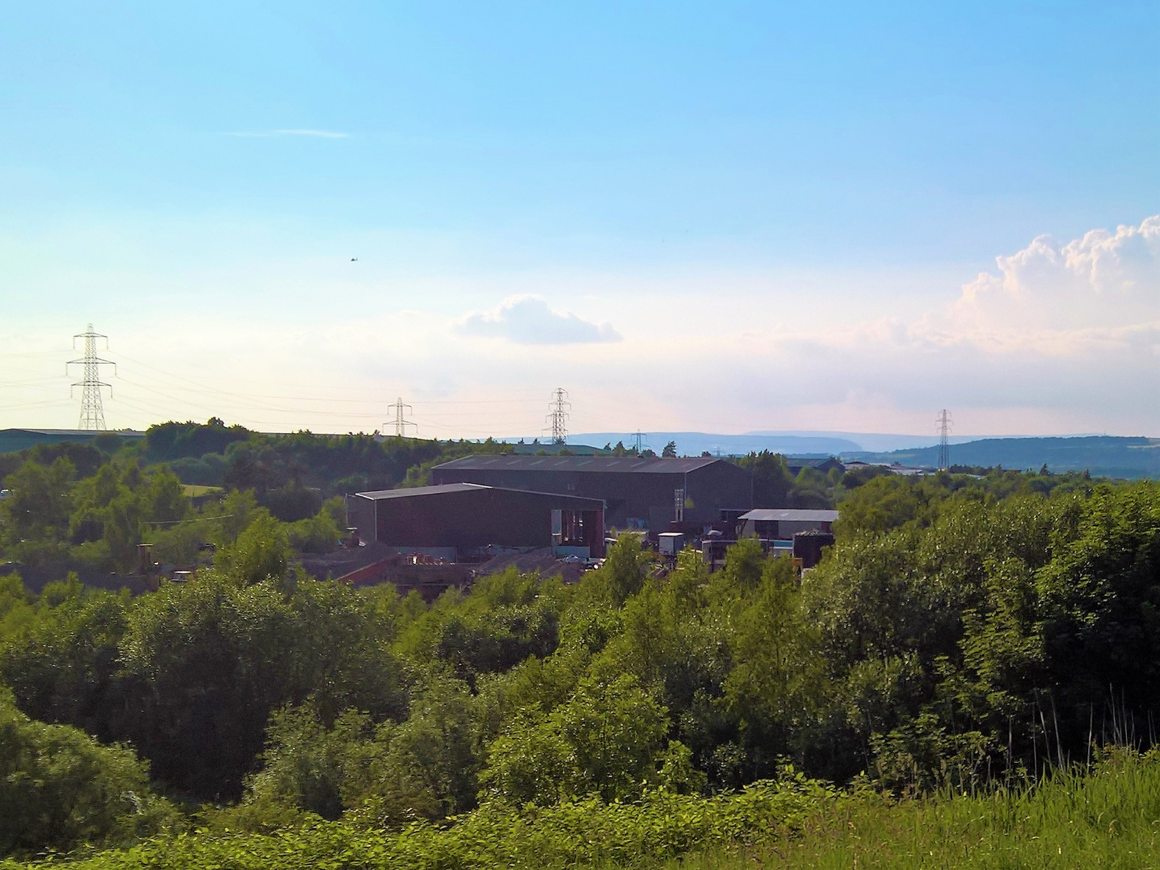 The site of the former Hapton Valley Colliery near Burnley, Lancashire. Coal was mined here for almost 130 years until it closed in 1982.